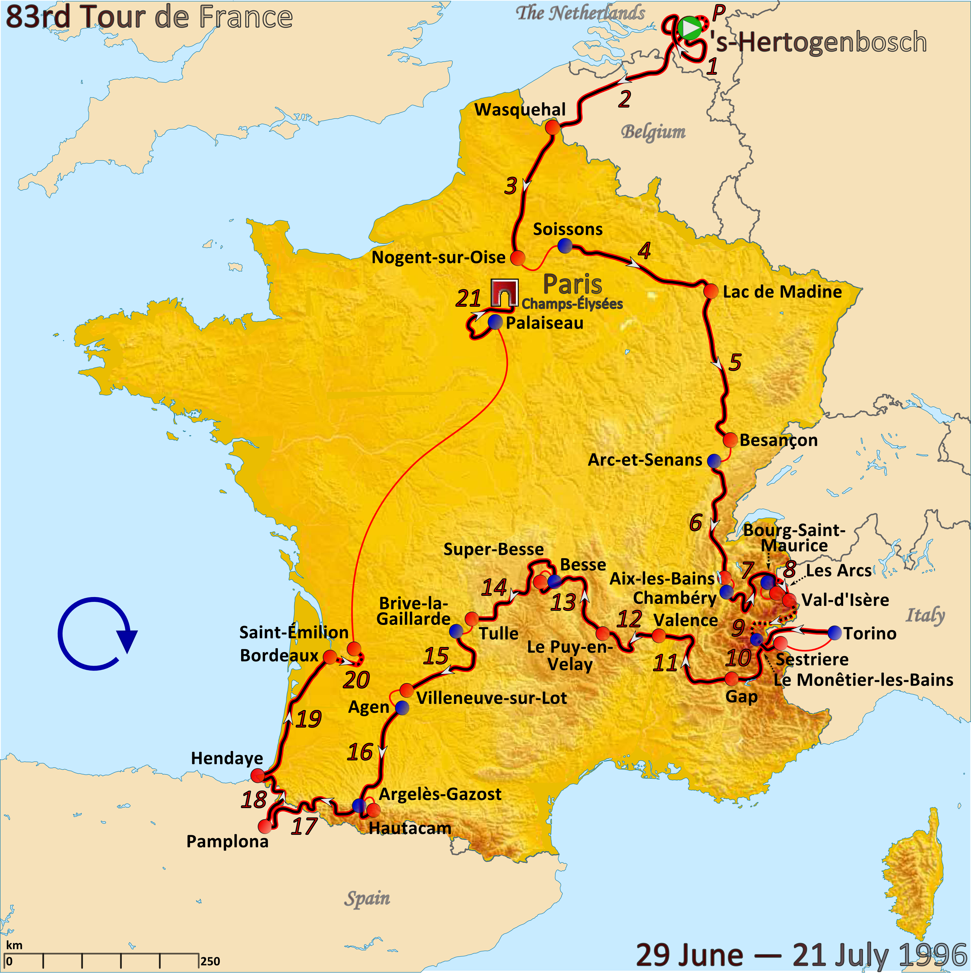 Map created in Inkscape of the 1996 Tour de France